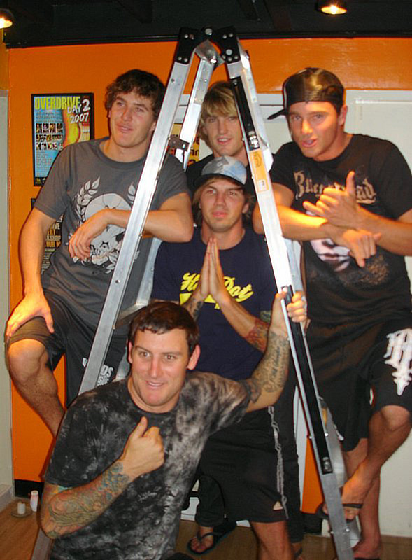 Parkway Drive in artist room before performing at Overtone RCA, Bangkok 2009